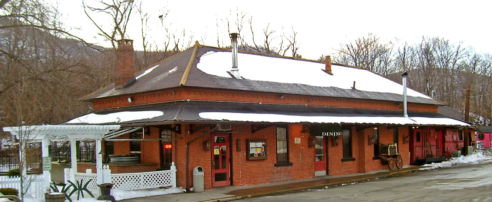 Photographed by Daniel Case 2007-02-22